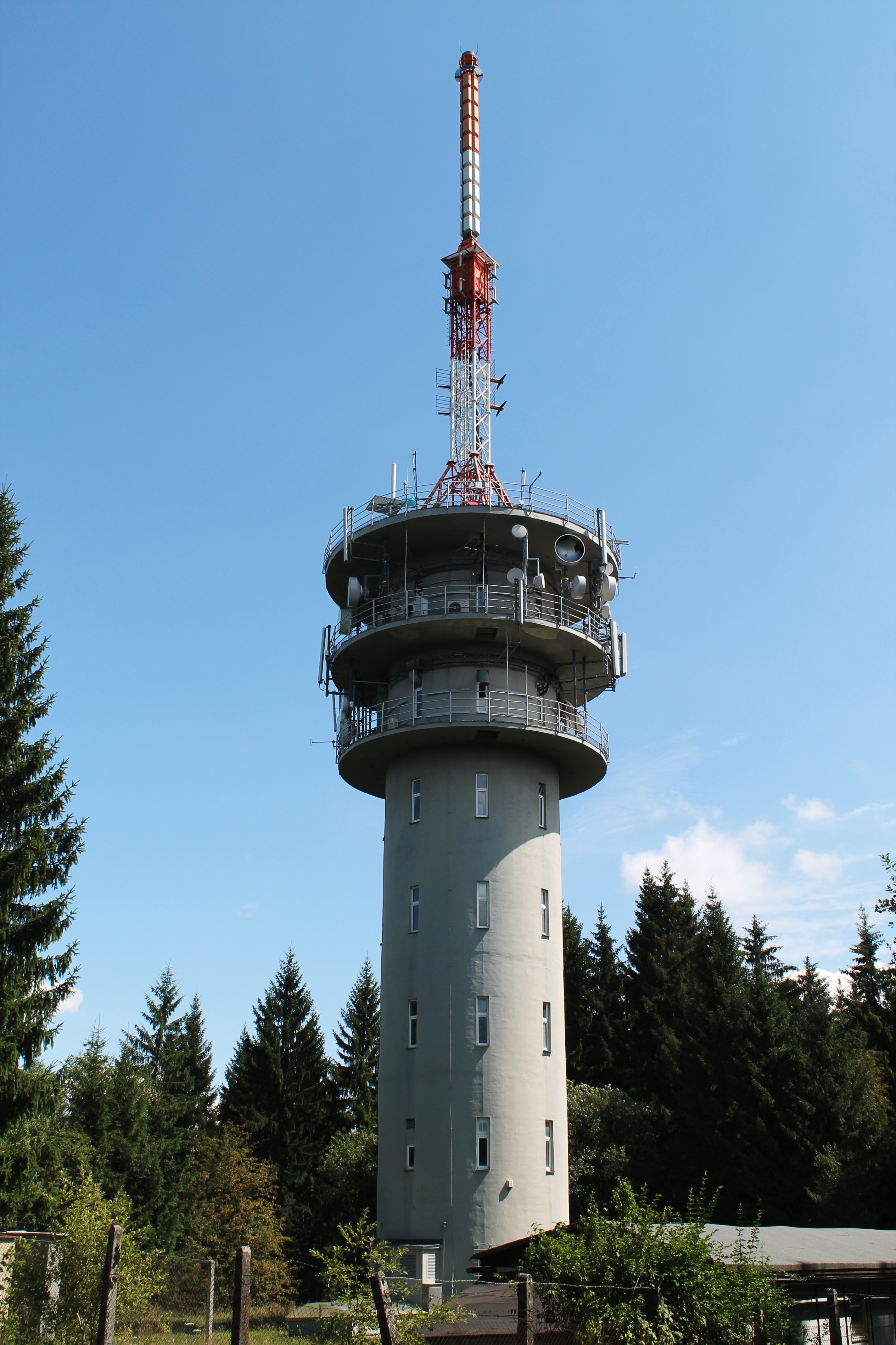 Svatobor antenna tower, Sušice, Klatovy District, Czech Republic - Google Maps - Google Earth